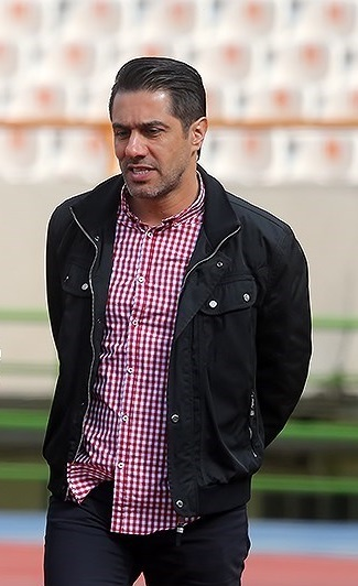 Afshin Peyrovani, Executive director of Iran national football team in training